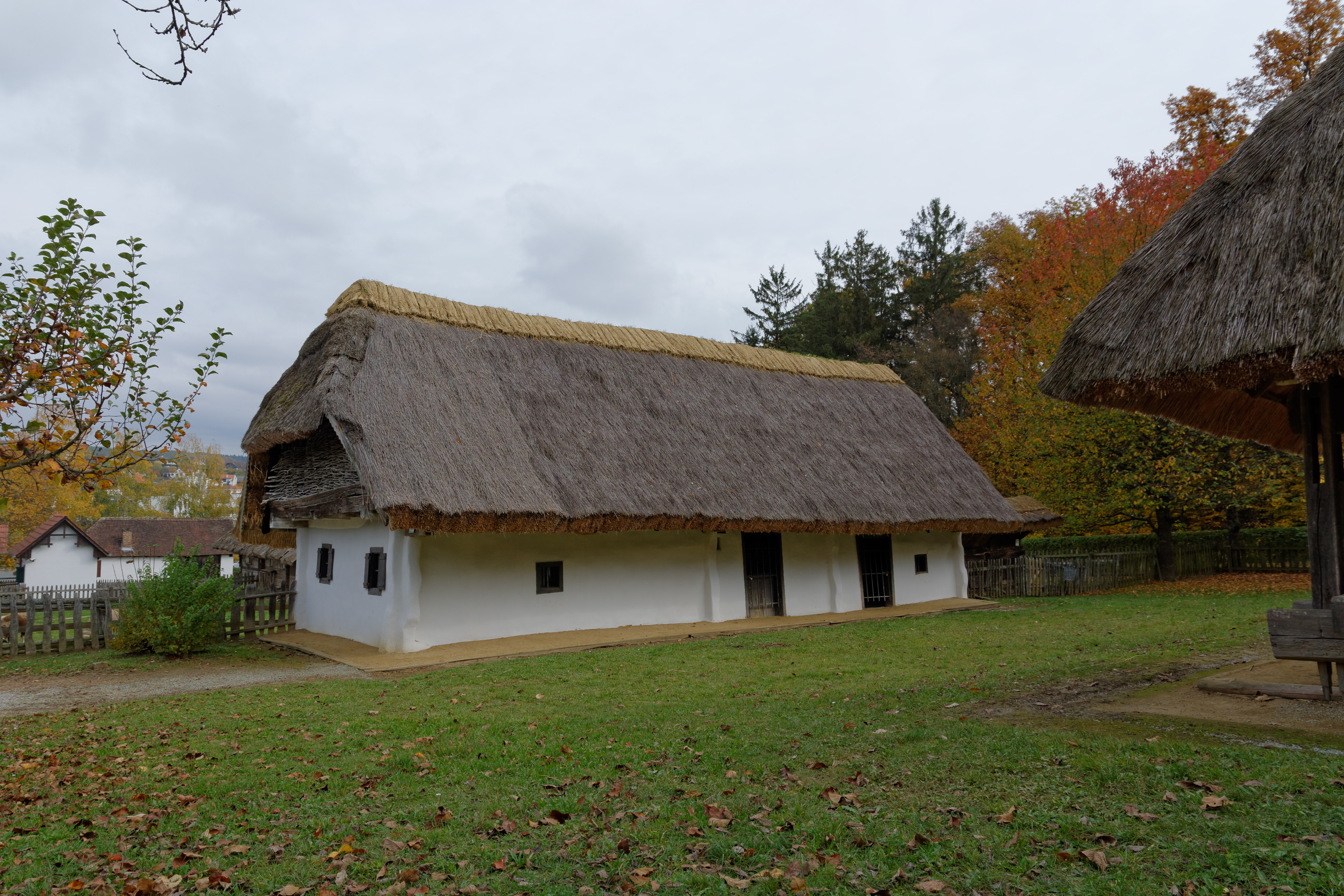 Farmstead in the outdoor museum Bad Tatzmannsdorf, Burgenland, AustriaDate of origin: 18/19th century, original position: Rauchwart near Saint Michael, Burgenland